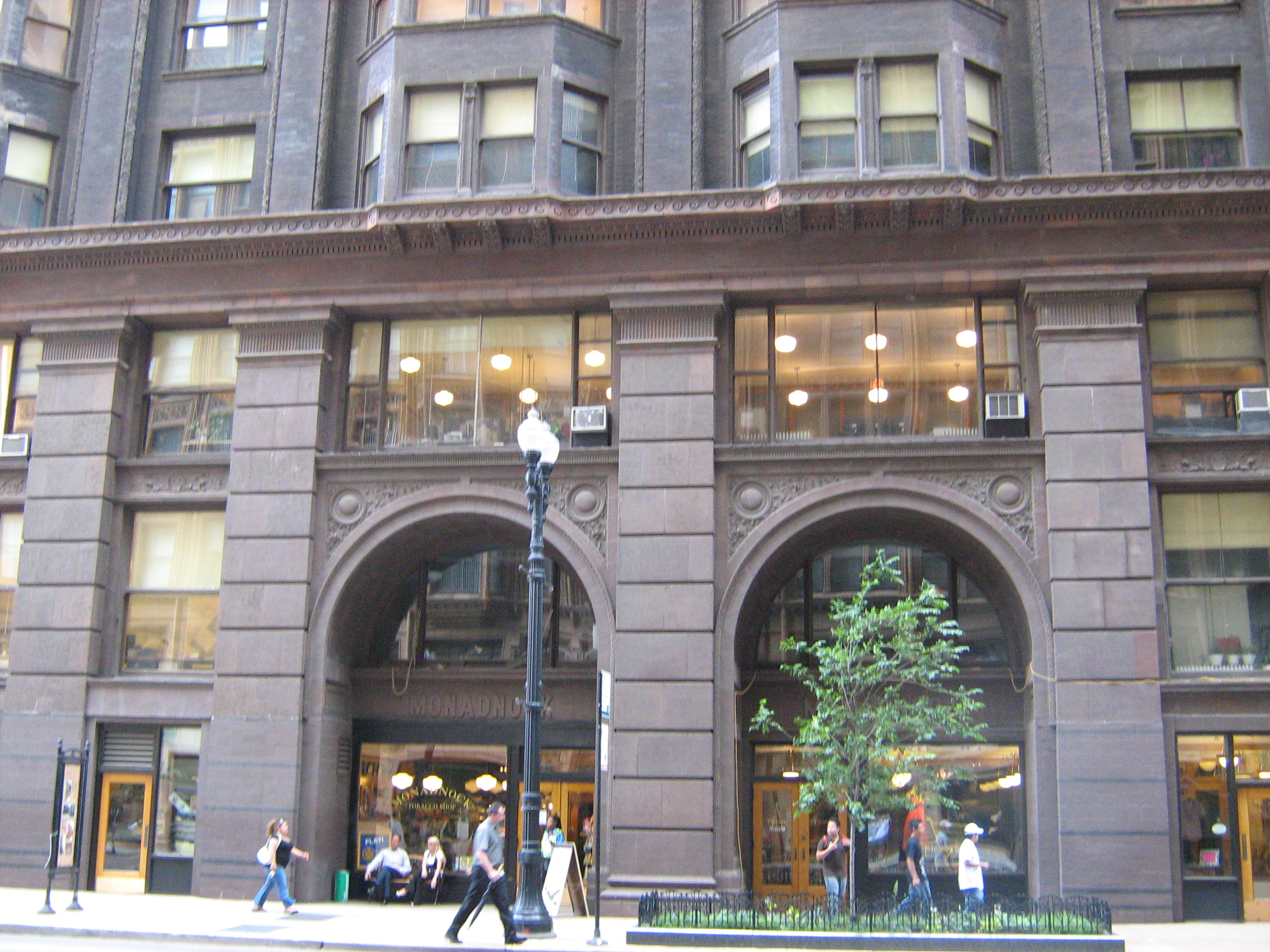 Street level view of the Dearborn street facade of the Monadnock Building, 53 West Jackson, Chicago, Cook County, IL.